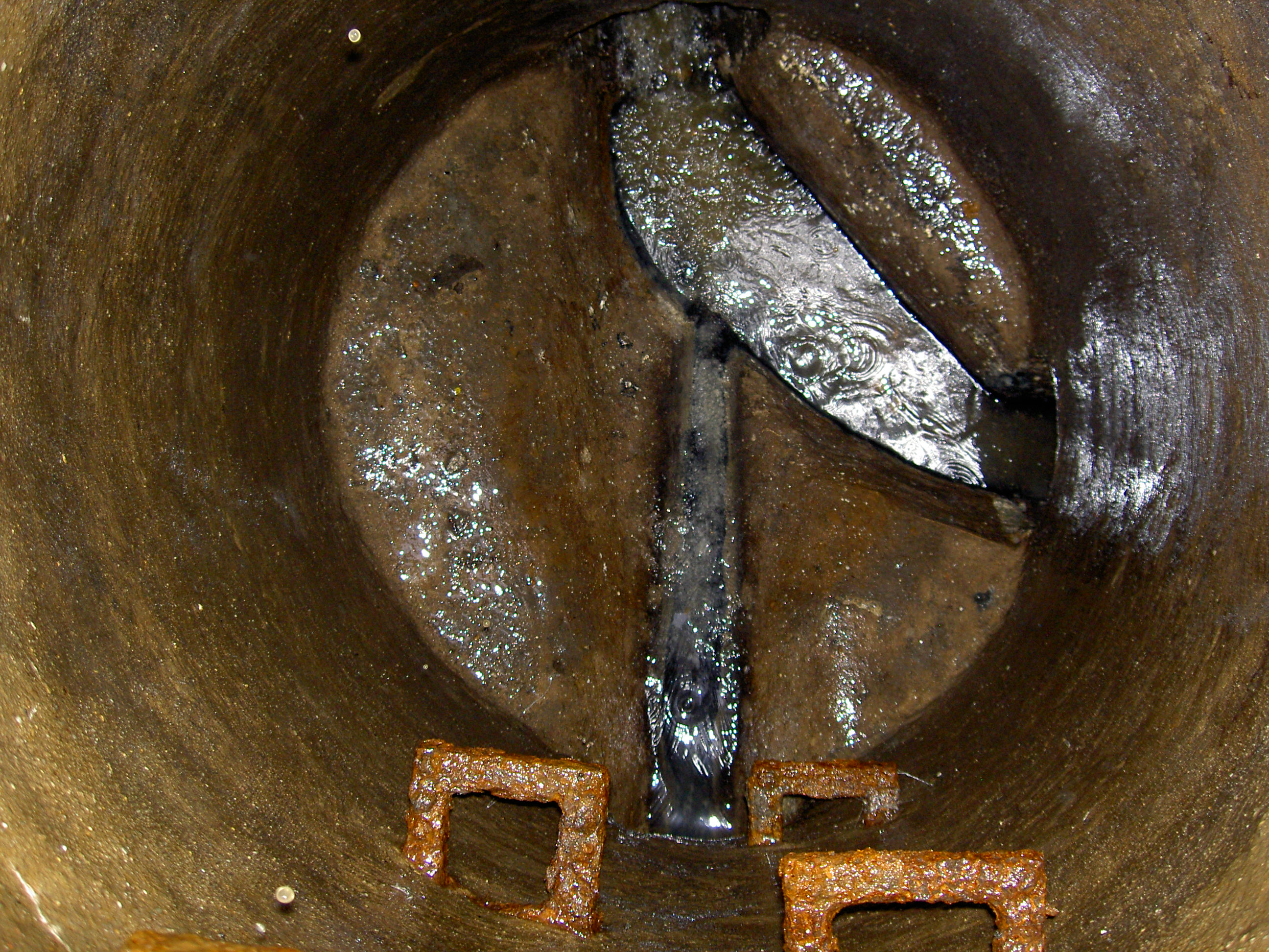 Circular sewer manhole